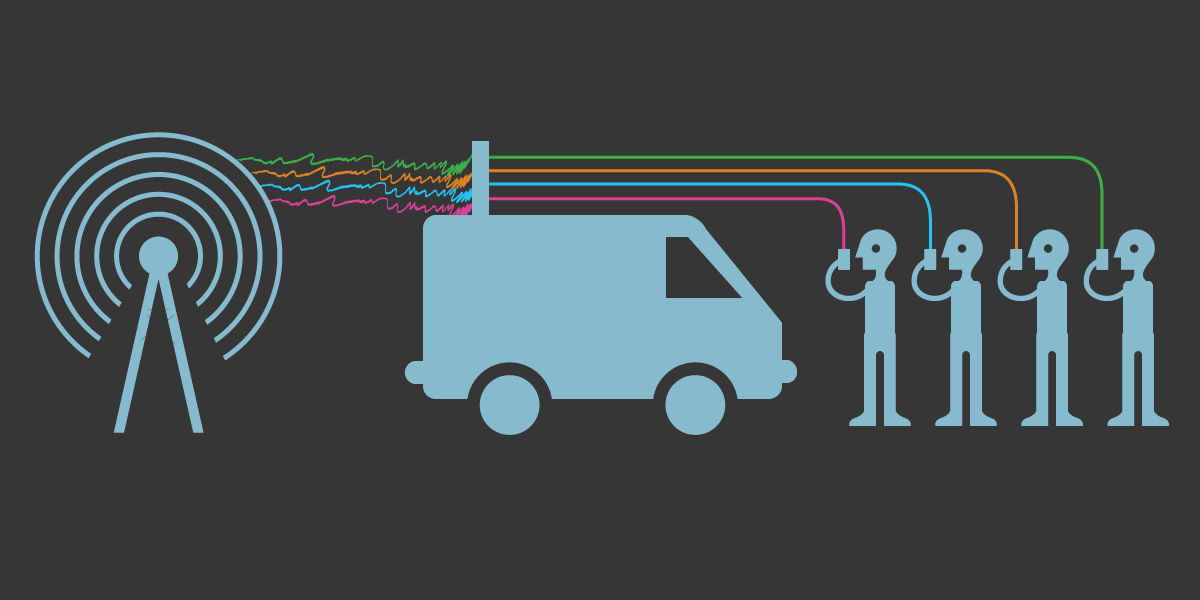 StingRay cell site simulators can be used to perform a man-in-the-middle attack on mobile phones.